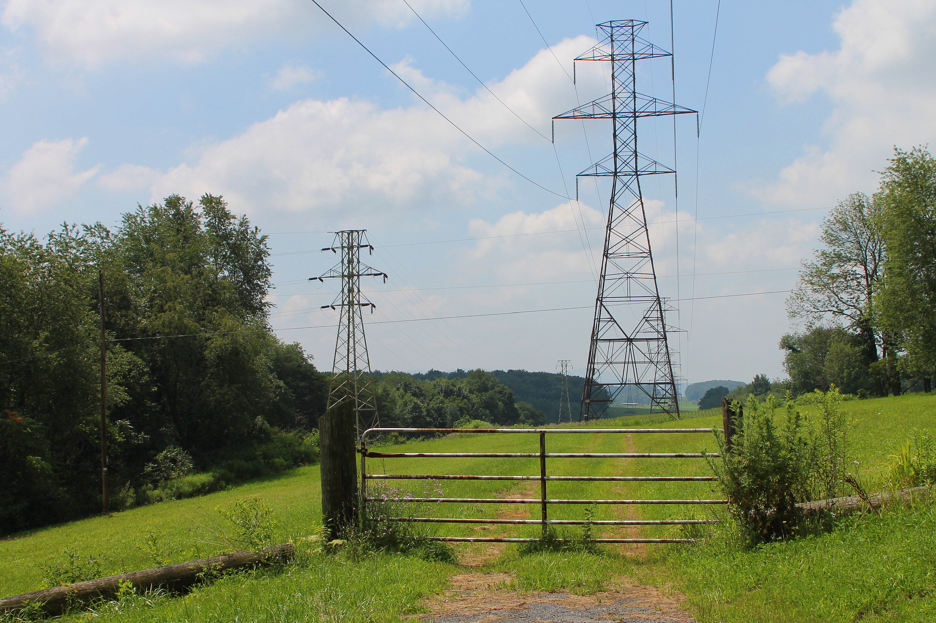 View of Monroe Township, Snyder County, Pennsylvania